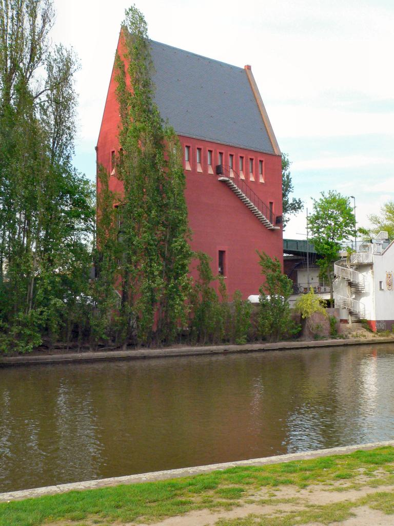 exhibiton hall Neuer Portikus in Frankfurt, Germany